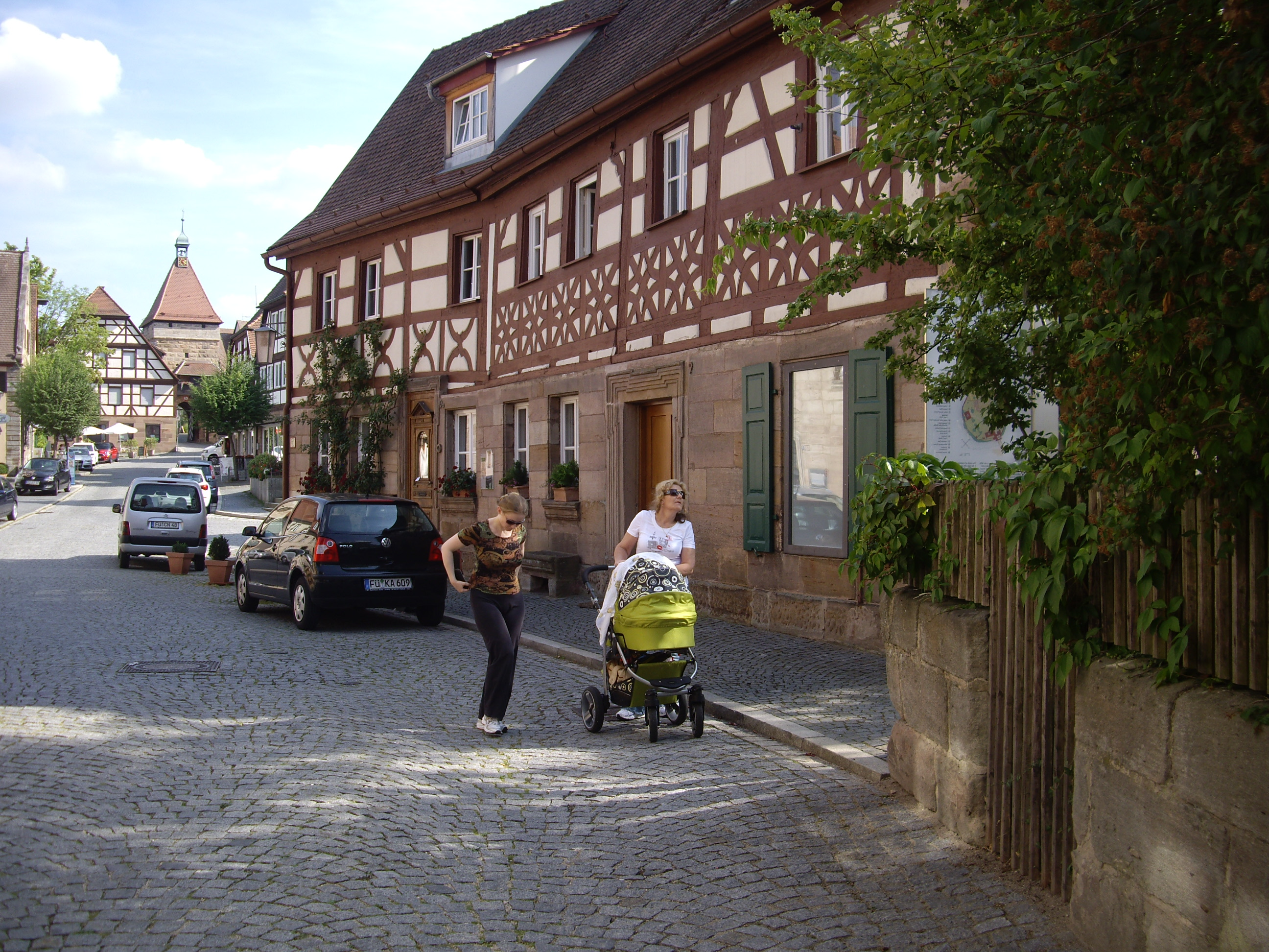 Cadolzburg - centre